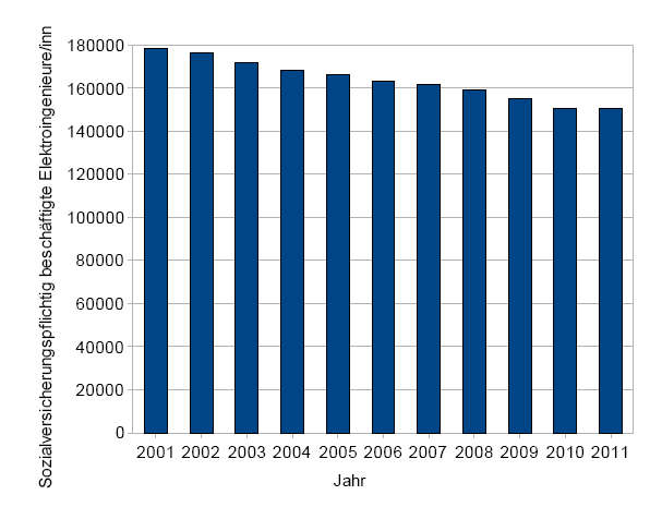 Time series of electrial engineers subject to social insurance contribution